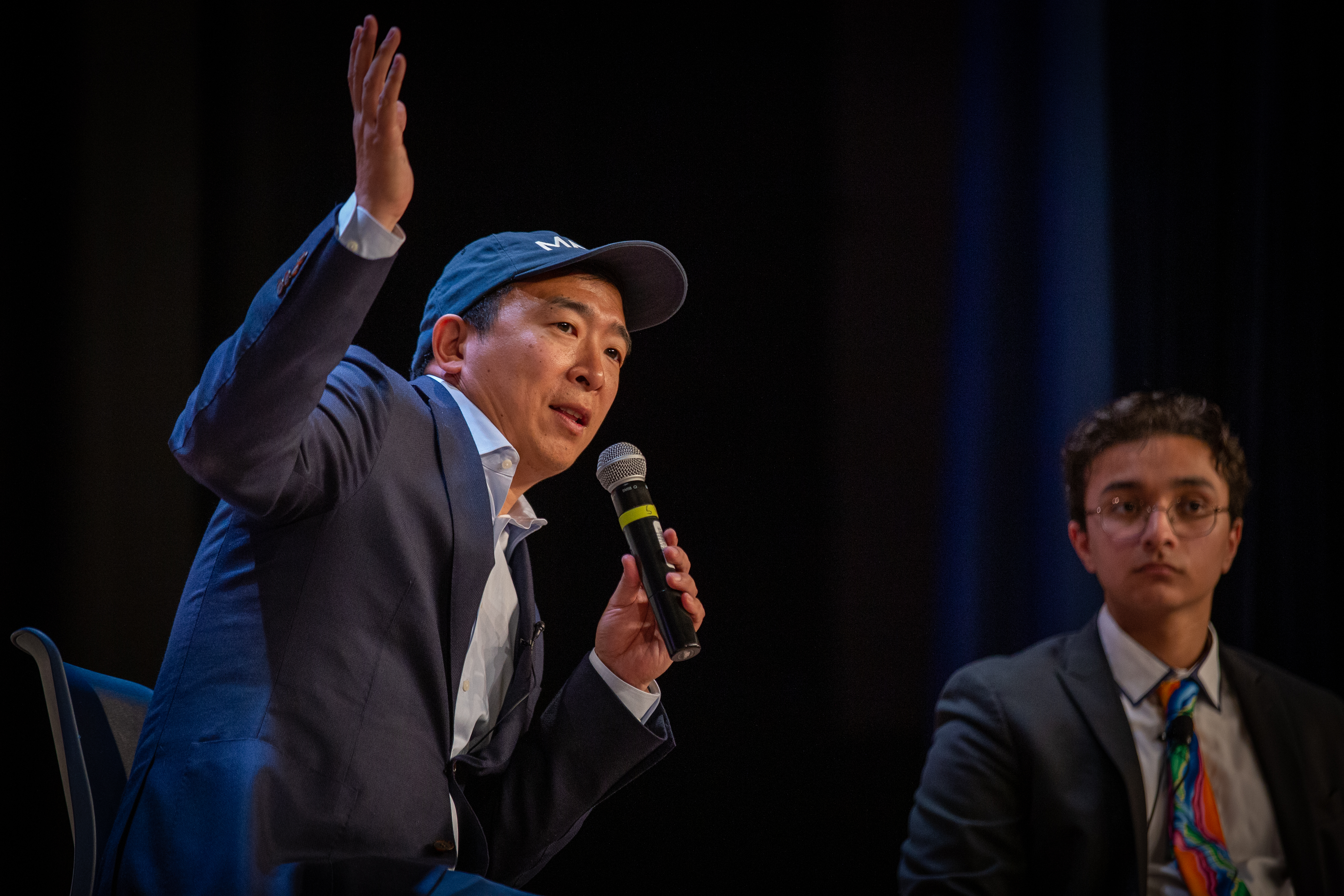 Andrew Yang. Photos taken for work of Youth Voice: The Iowa Caucus, a presidential candidate forum hosted at Roosevelt High School. U.S. Representative Tulsi Gabbard, U.S. Senator Michael Bennet, U.S. Senator Bernie Sanders, Andrew Yang, Joe Sestak and Tom Steyer took part in the event, answering questions from high school and college students from Des Moines and even across the country. The event was co-sponsored by Des Moines Public Schools and the Des Moines Register.